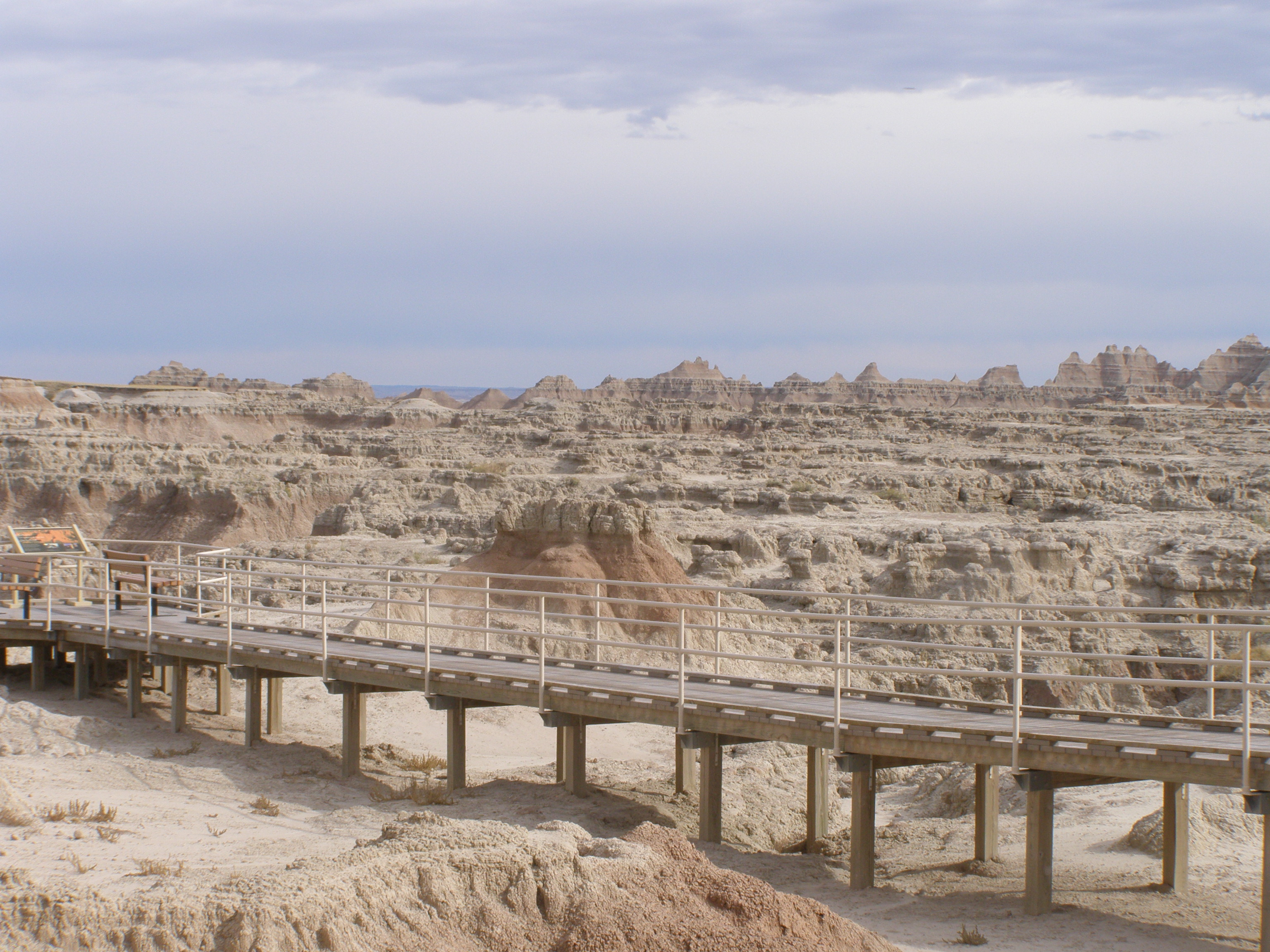 Door Trail boardwalk 'Chadron Formation' is the surface (34-37 MYA) Eocene